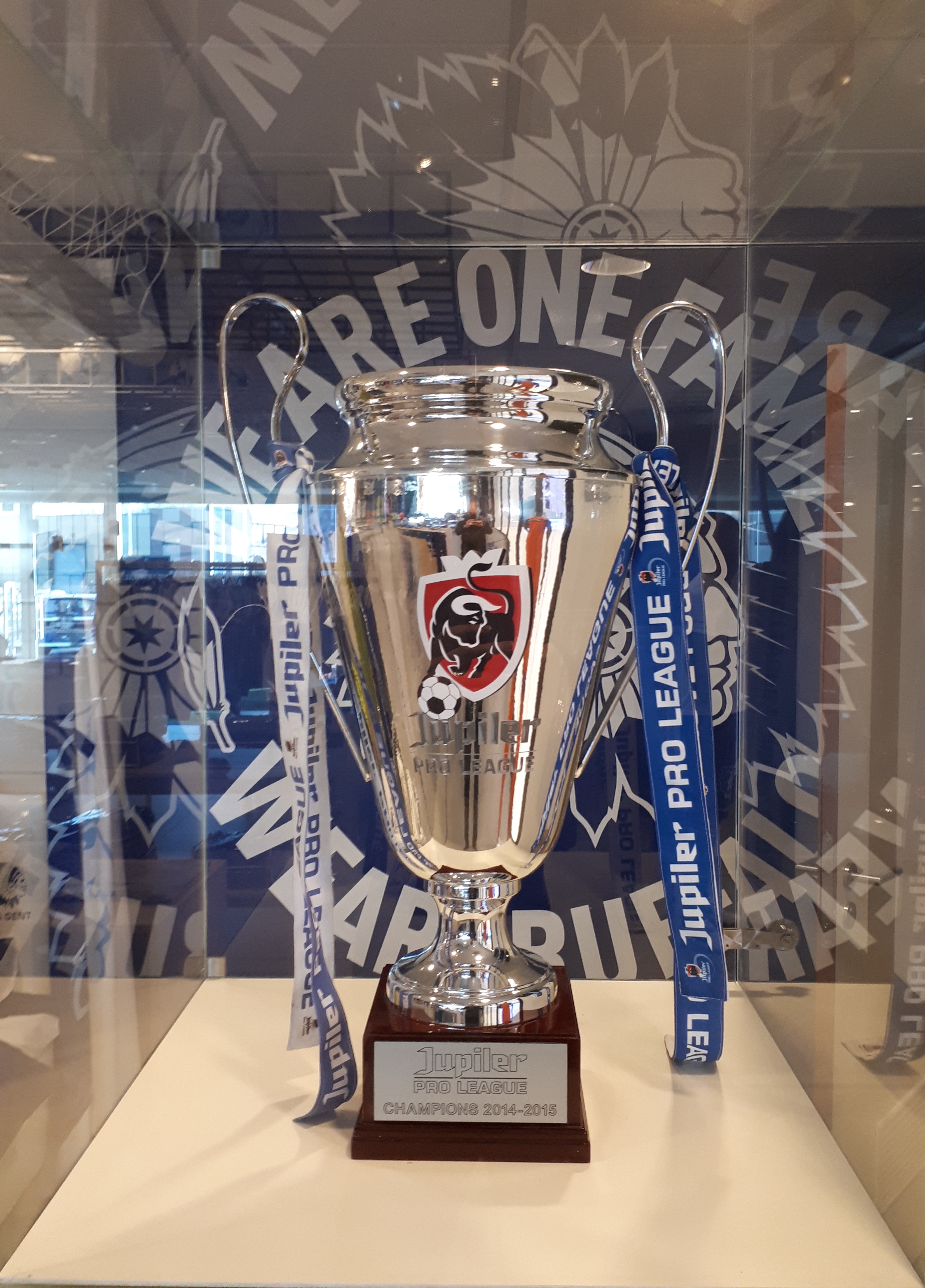 KAA Gent, trophy of the national league title, Jupiler Pro League 2014-15